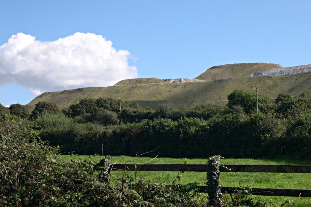 China Clay Waste Tips over Higher Coldvreath The terraces of waste are fairly quickly seeded with grass but newly dumped waste can be seen high up on the tip.